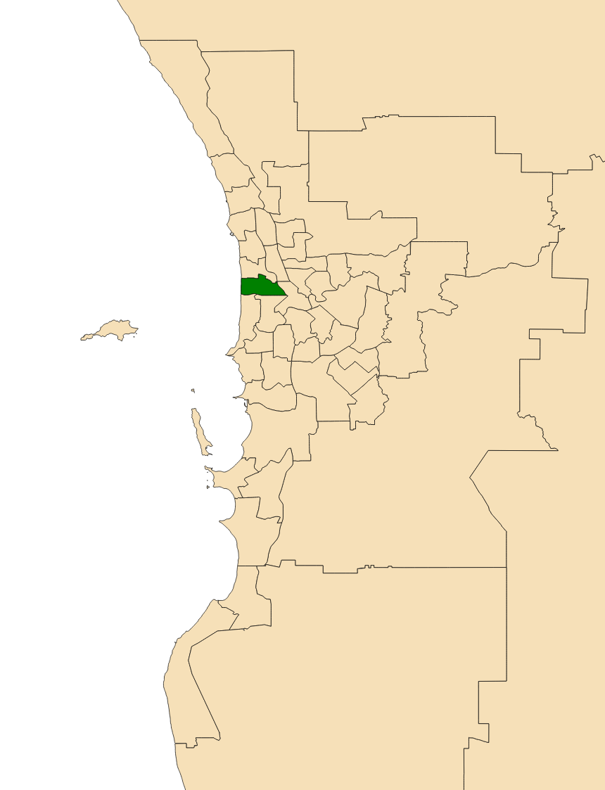 Location of the electoral district of Churchlands in the Perth metropolitan area, Western Australia as of the 2017 WA state election.